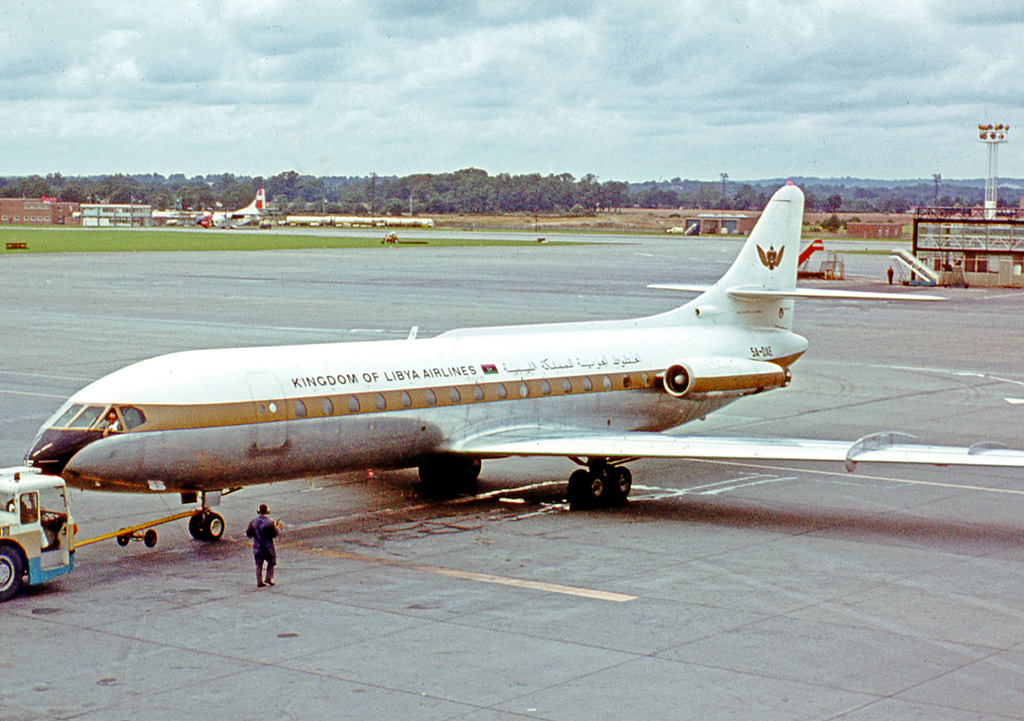 Sud SE-210 Caravelle 5A-DAE of the Kingdom of Libya Airlines at London Gatwick in 1969.